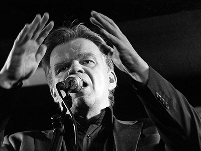 Einar Már Guðmundsson. Poetry and jazz in Aarhus 2012